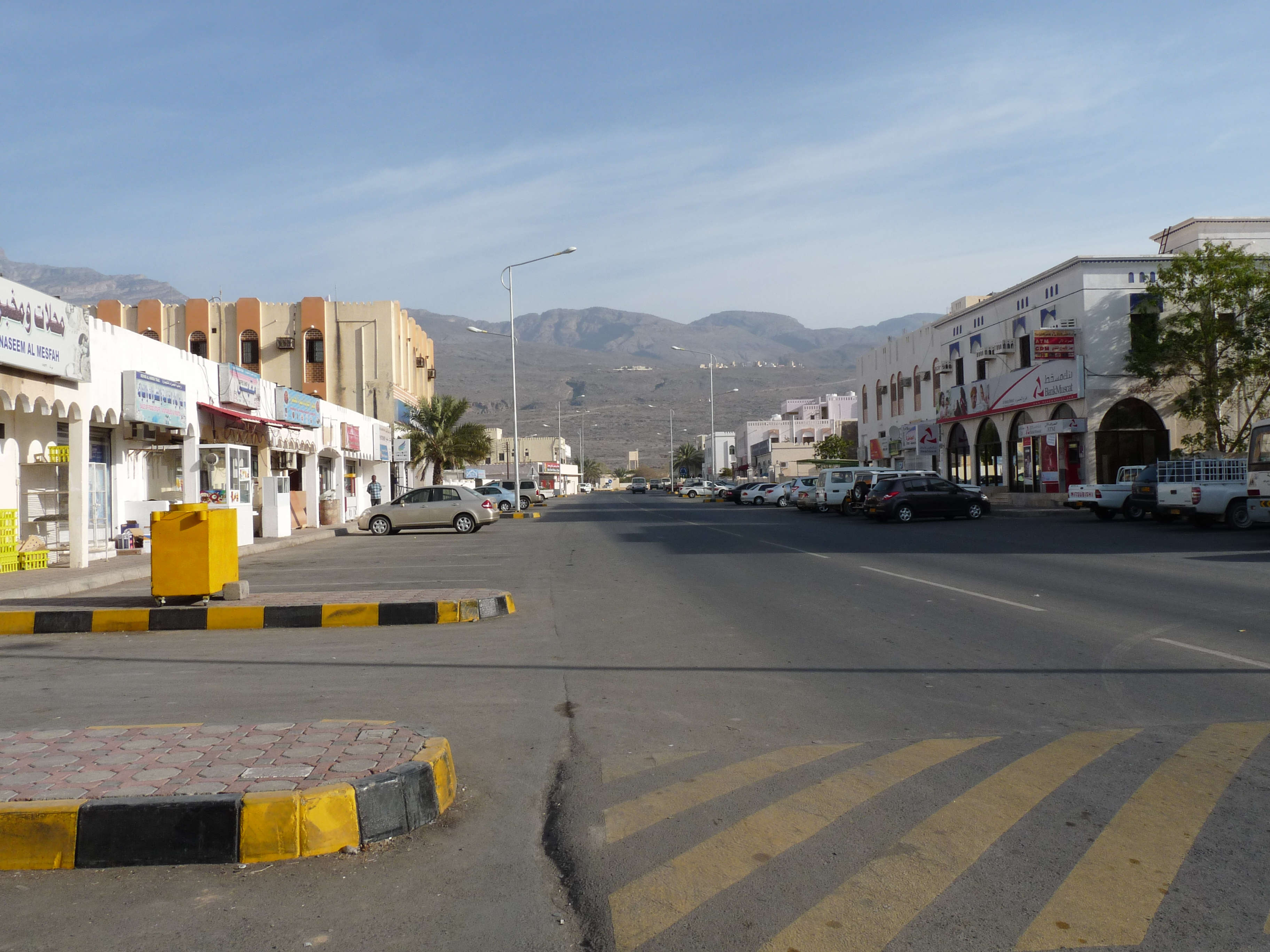 Street of Al Hamra (Oman)